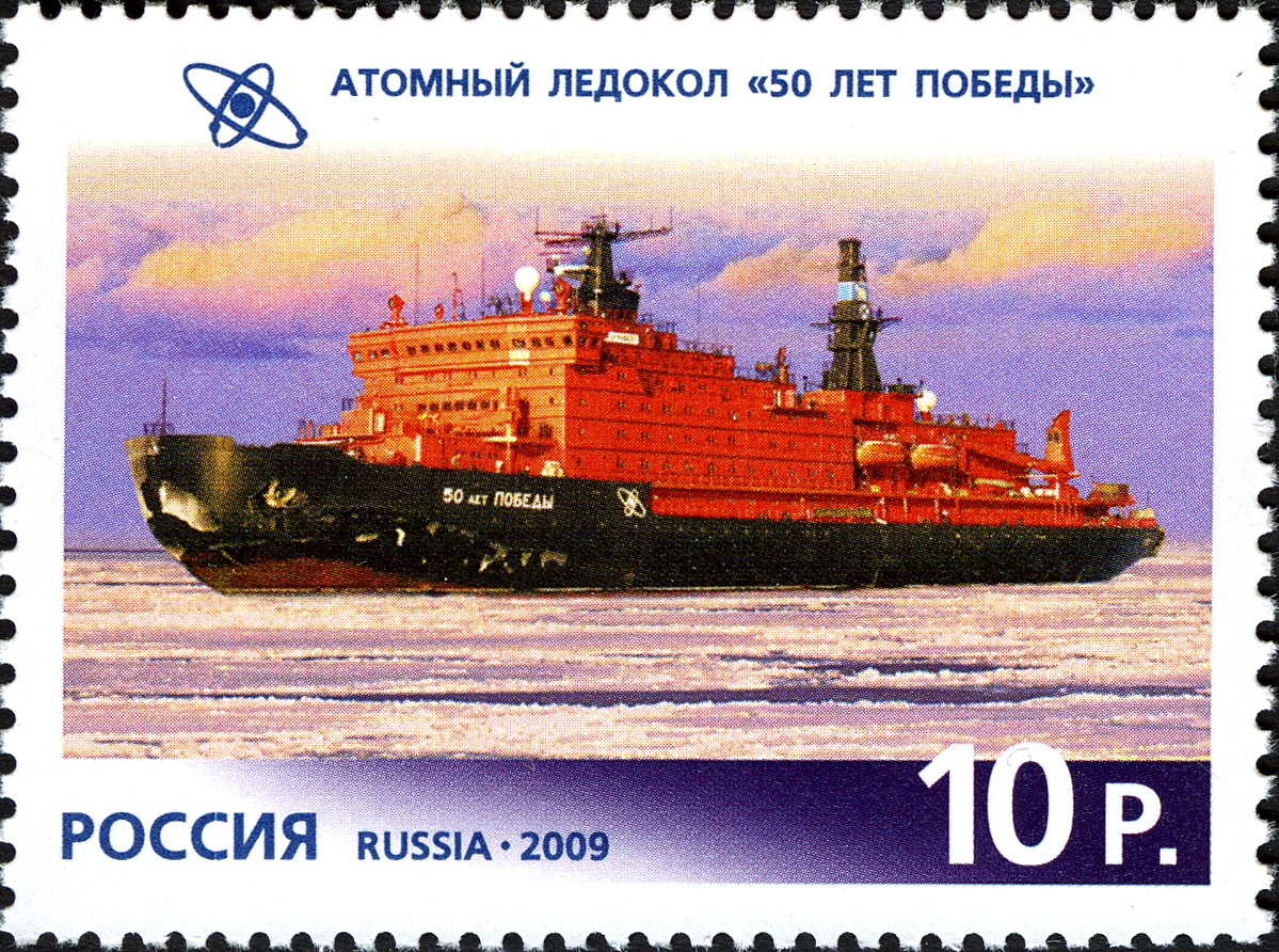 50th Anniversary of Nuclear Russian Navy - "The 50th Victory Anniversary" atomic ice breaker